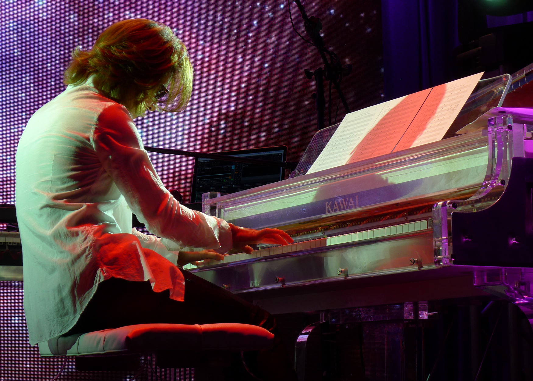 Yoshiki (of the rock band X Japan) performing live and speaking at the Grammy Museum in Los Angeles CA on Monday, August 26th, 2013. This interview plus 5-song mini-concert took place on the eve of the digital release of Yoshiki's highly anticipated new album "Yoshiki Classical".